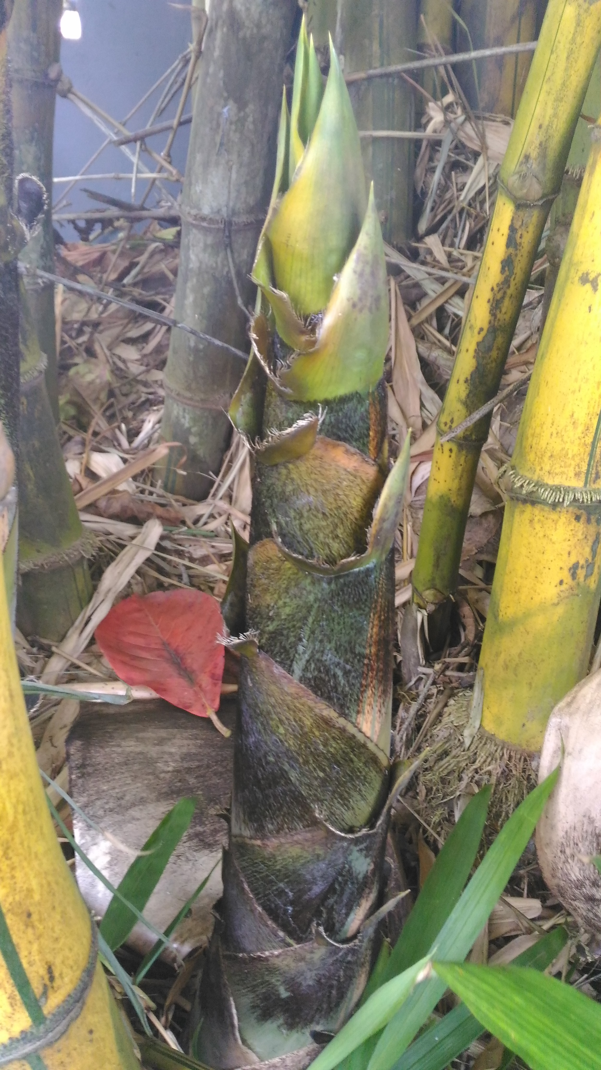 A young bamboo shoot